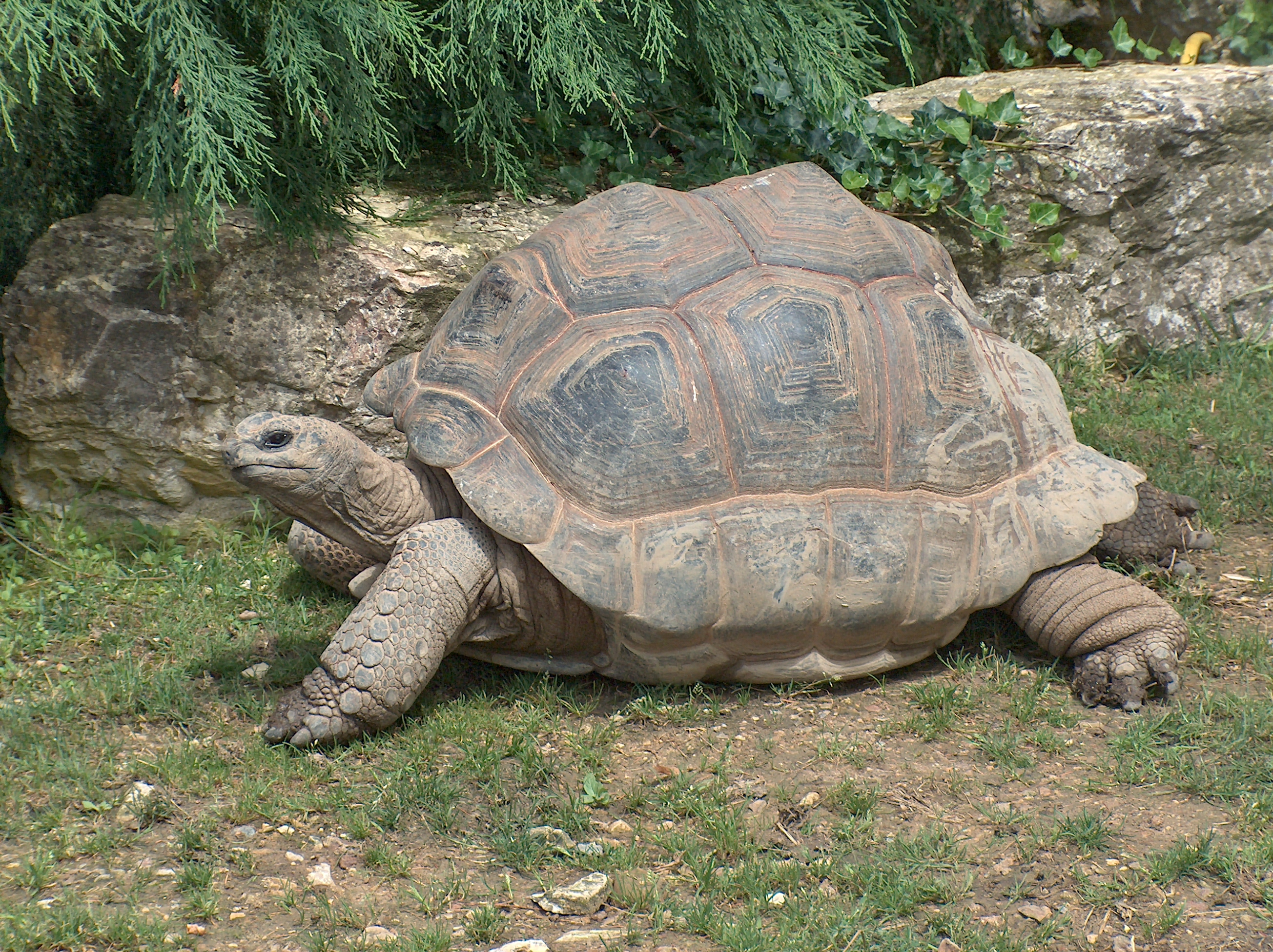 An Aldabra Giant Tortoise at Beauval Zoo, France.